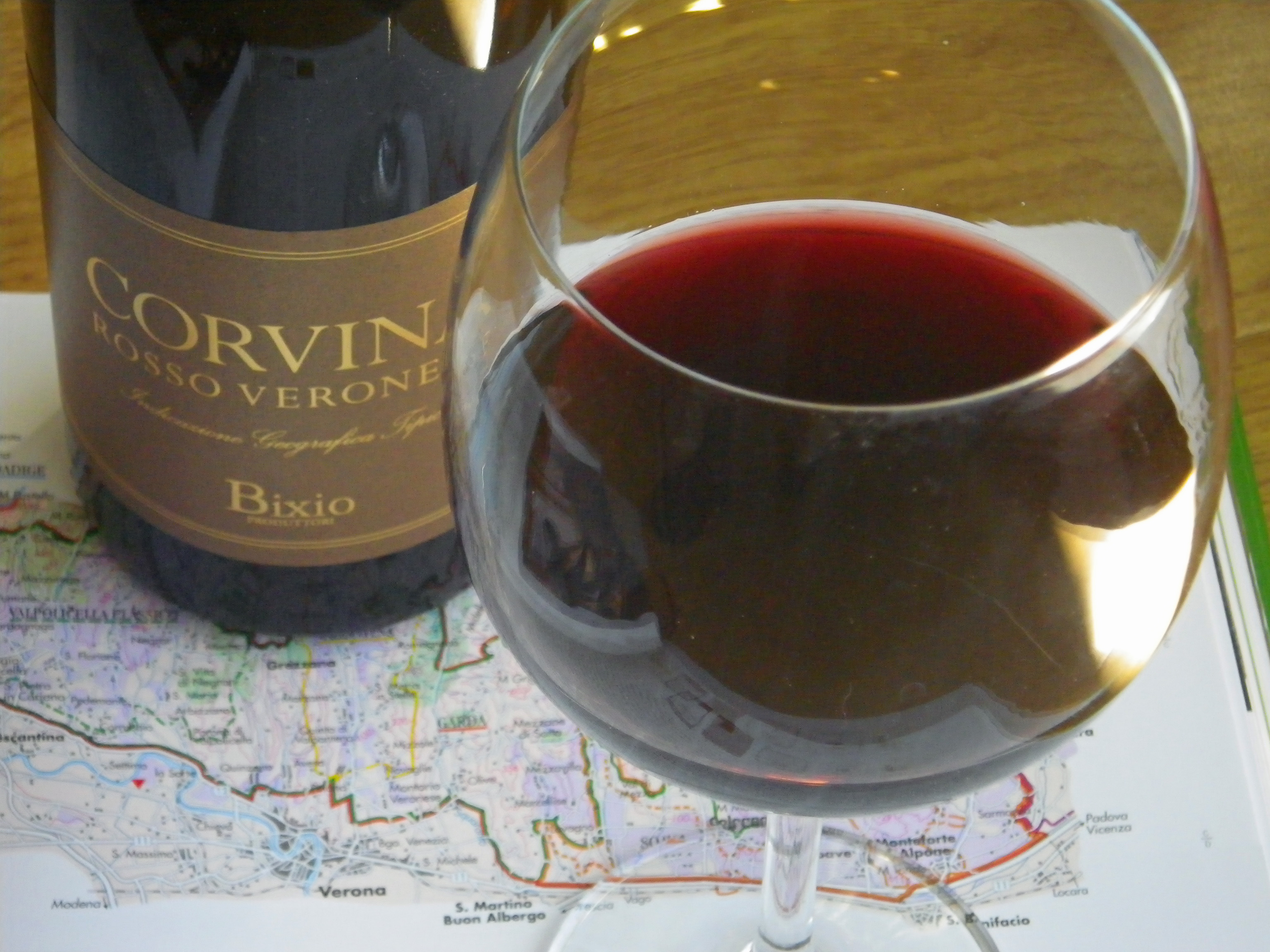 Varietal Corvina Veronese wine (IGT Veneto, 2009), presented on the region's map